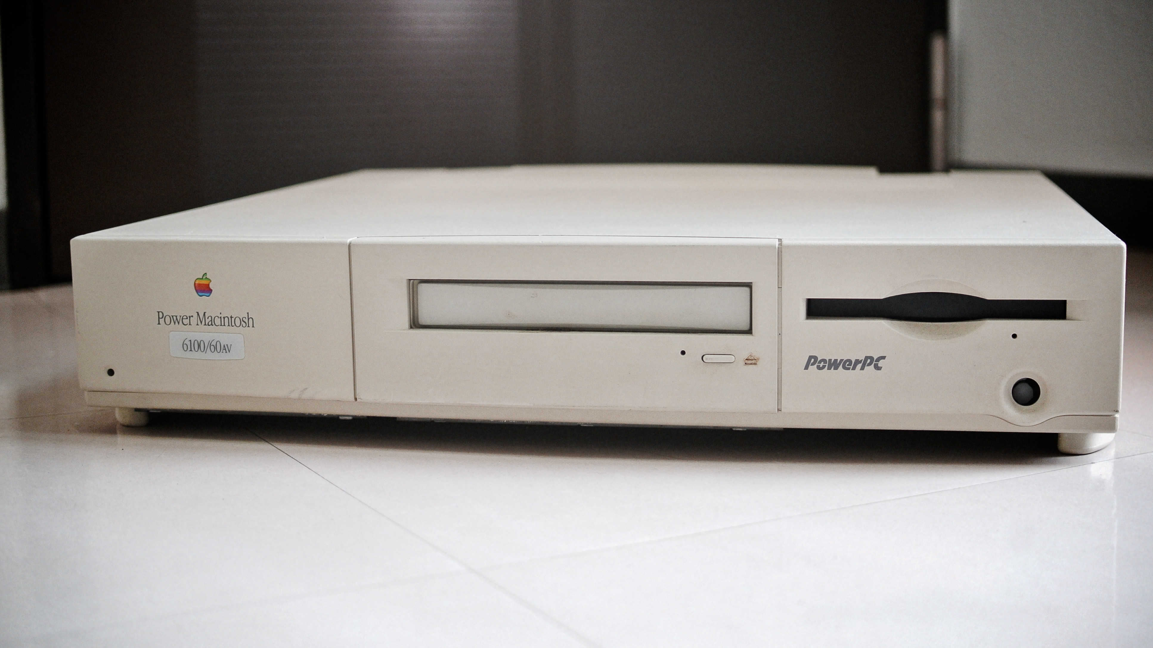 Front view of a Power Macintosh 6100/60 AV